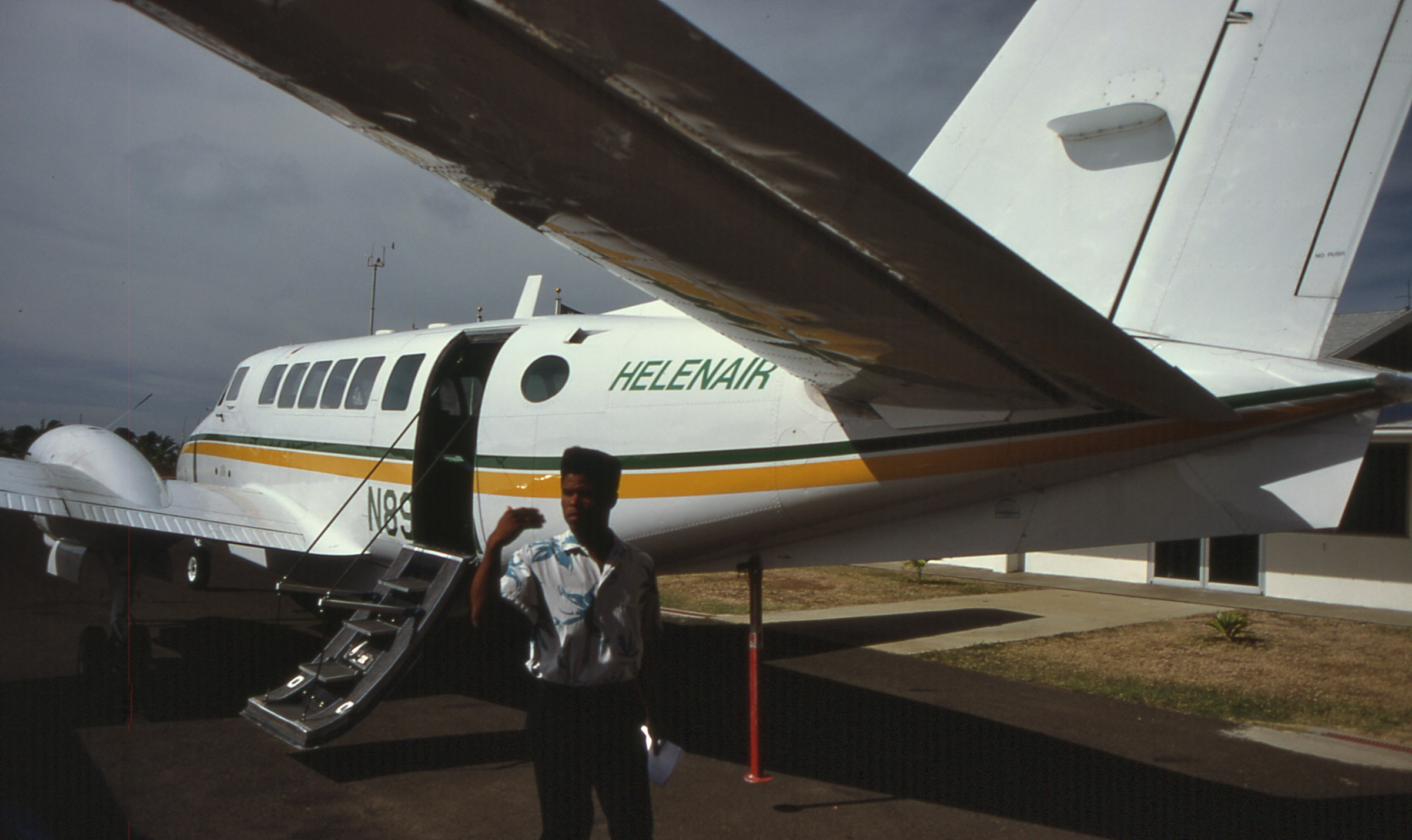 April 1994: Helenair Beech 99 Airliner N899CA on Union Island (TVSU), St. Vincent and Grenadines.